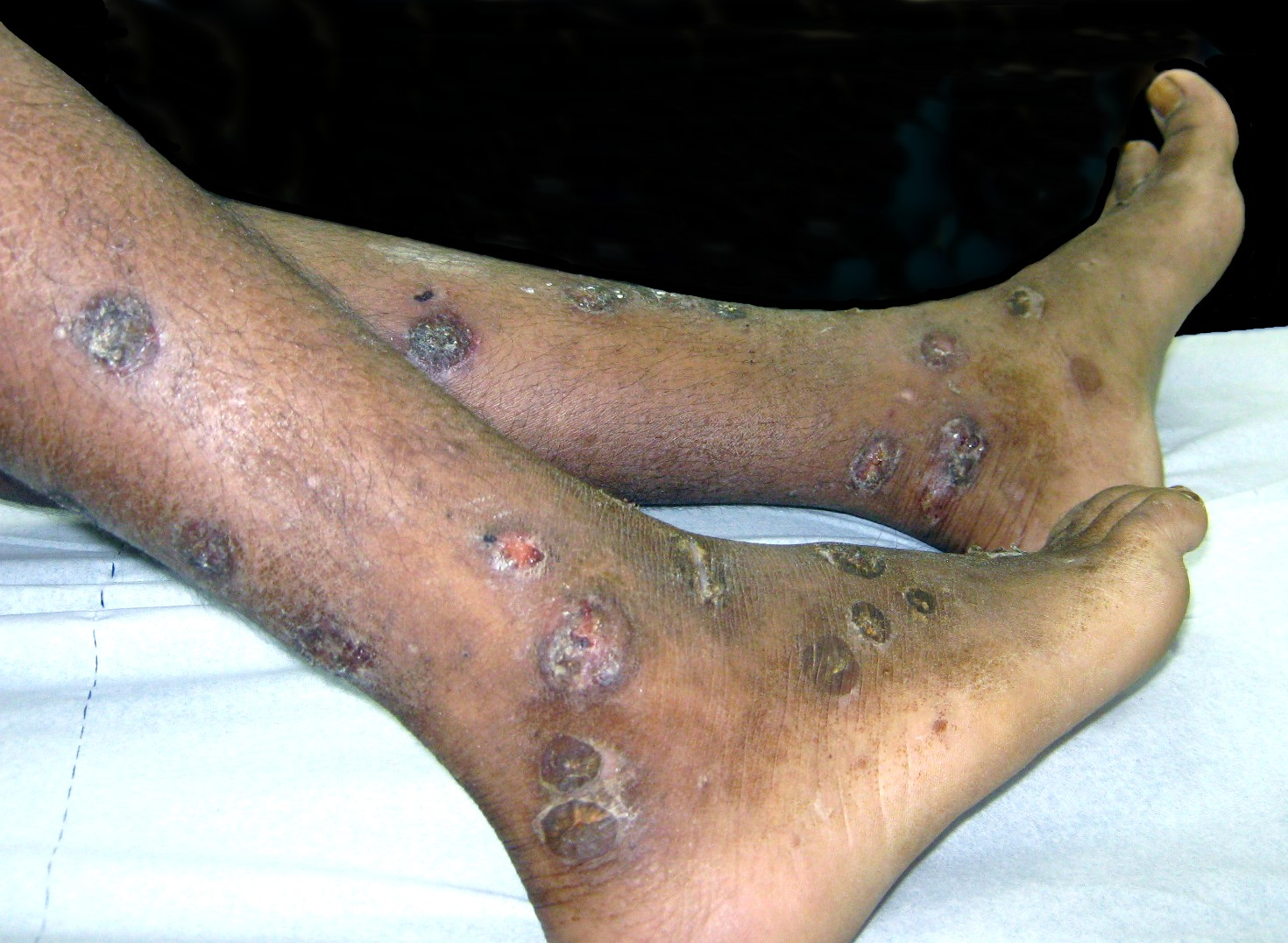 Impetigo